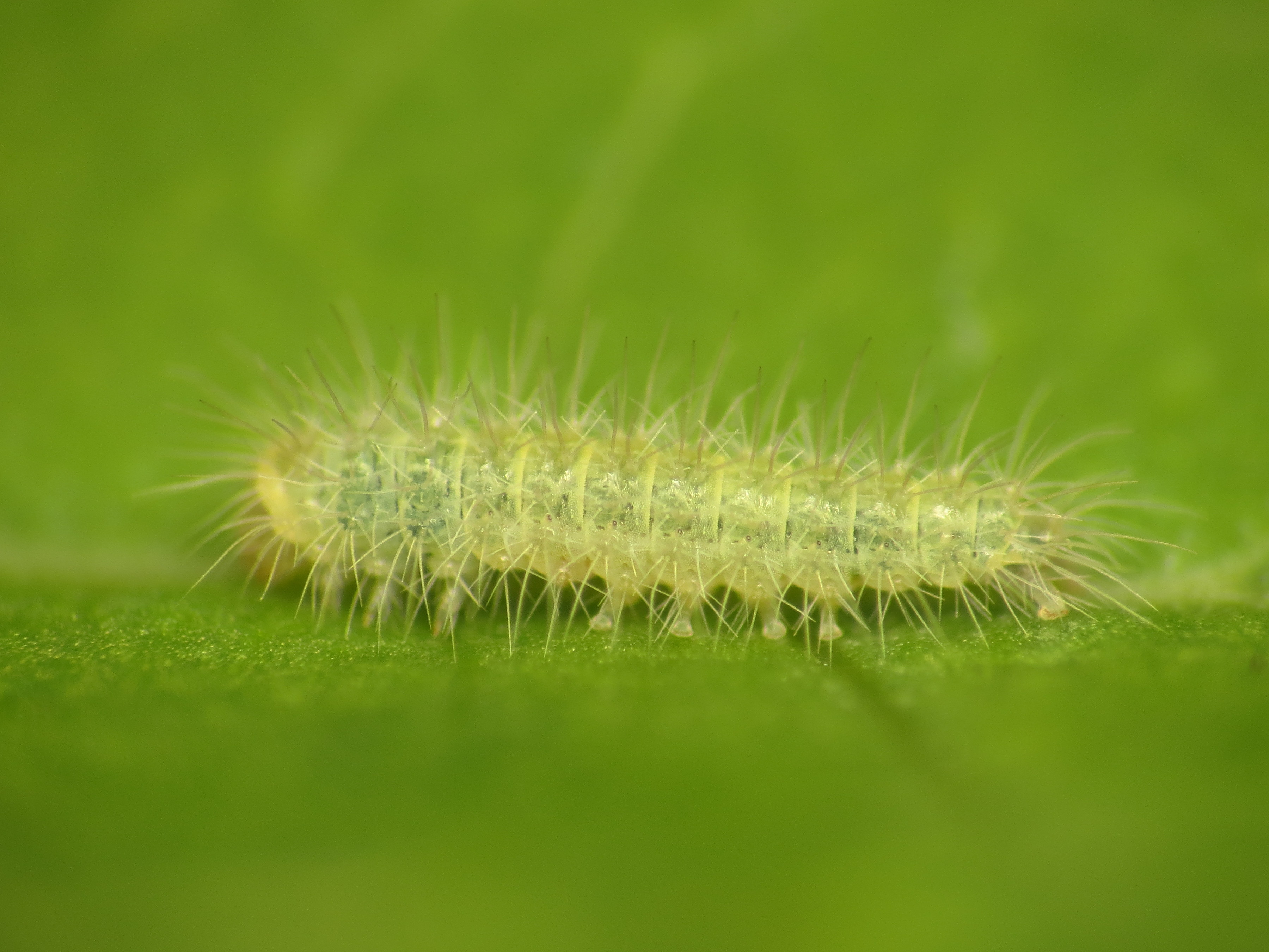 Pterophorinae sp., larva on Convolvulus arvensis L., Søborg, Denmark, 6 July 2014 Around 2.5 mm in length, found on same plant and in similar position (on top of the leaf at base of primary vein close to the petiole) to one of the similarly-sized Emmelina monodactyla (Linnaeus, 1758) larvae found the same day. However this caterpillar is much hairier, somewhat differently coloured, less obviously dorso-ventrally compressed and with a different posture standing higher on the legs and prolegs. Not clear whether this is a different instar of Emmelina monodactyla or an early instar of Pterophorus pentadactyla (Linnaeus, 1758).